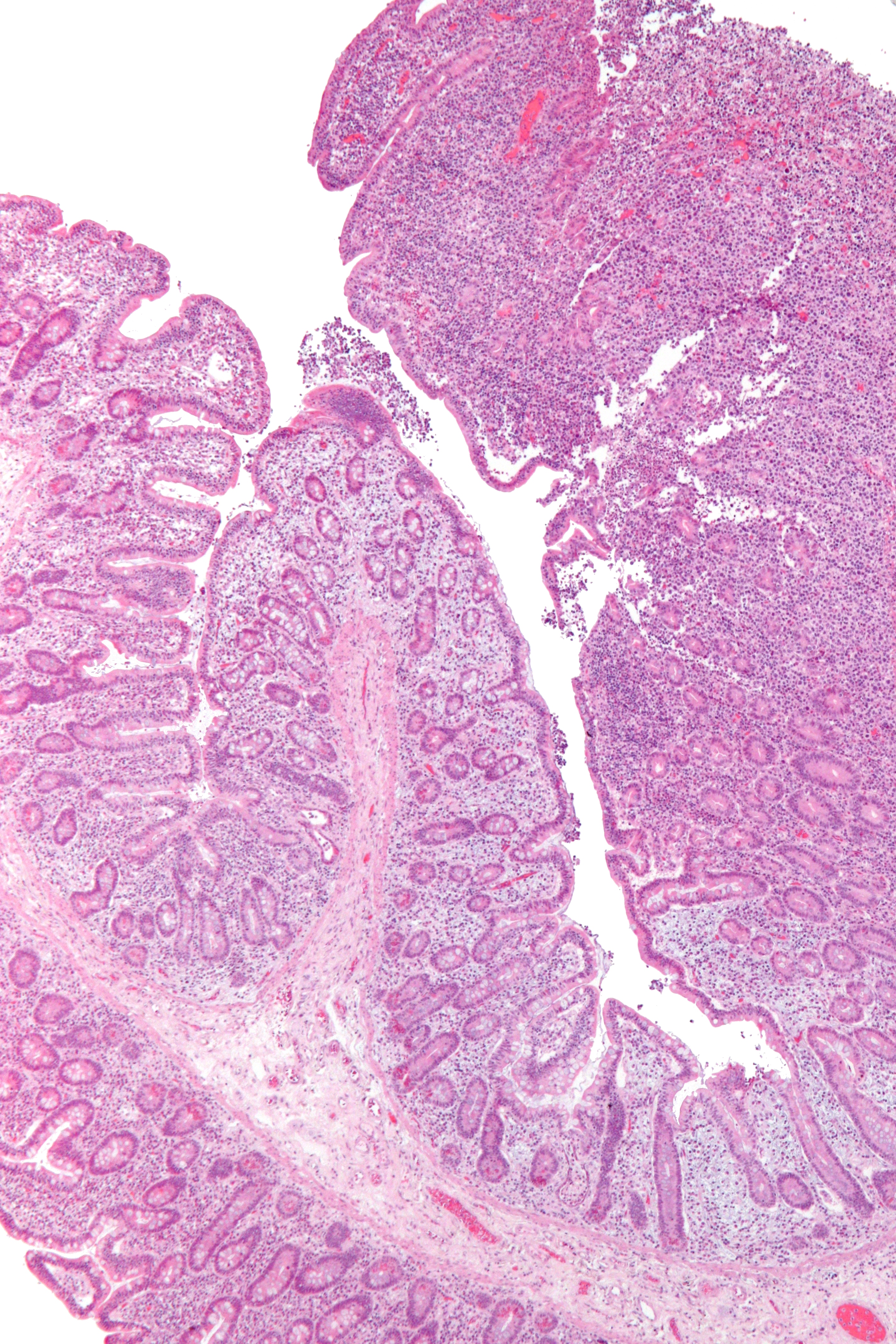 Low magnification micrograph of enteropathy-associated T cell lymphoma. H&E stain.